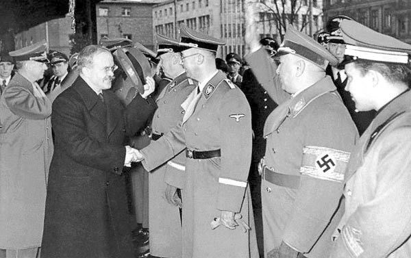 Vyacheslav Molotov did shaking hands with Heinrich Himmler